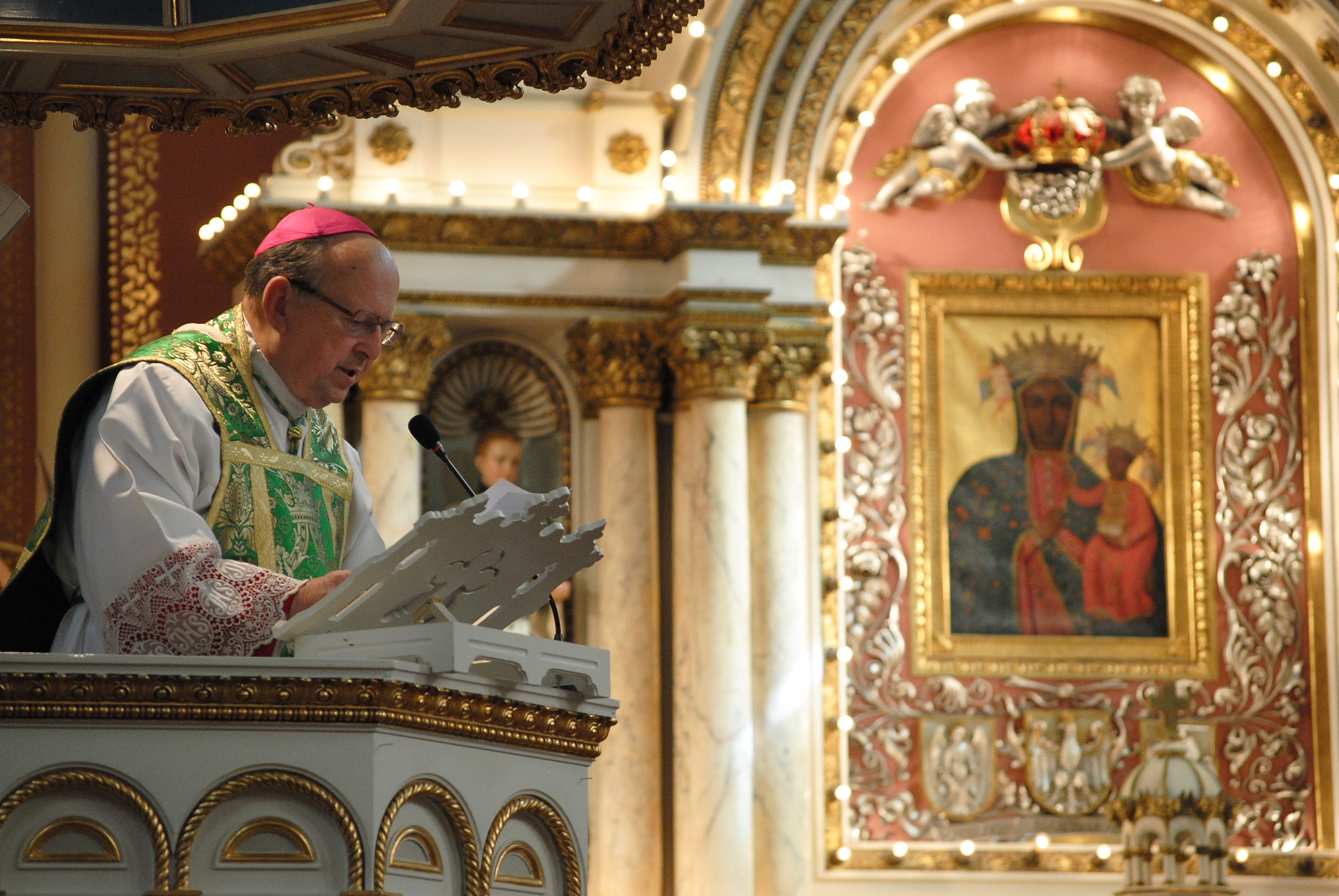 Taken on the 12th of August 2012 on the occasion of the ninth anniversary of his episcopal consecration. Seen here preaching at the pulpit, His Excellency offered pontifical low mass at Saint Josaphat's Church in Detroit, Michigan.